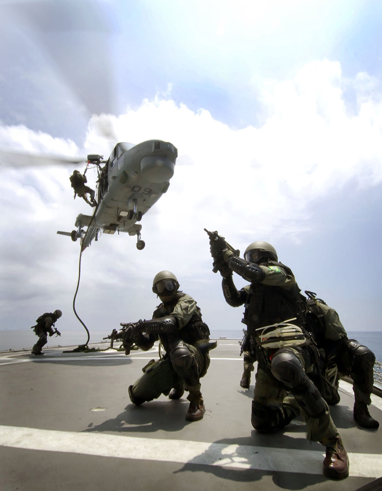 A visit, board, search and seizure team attached to the Brazilian navy frigate Independencia (F 44) rappel onto their ship from a Brazilian navy Lynx helicopter during Fuerzas Alidas PANAMAX 2007, while under way in the Caribbean Sea Sept. 2, 2007. The U.S. Southern Command joint, multinational training exercise brings together military and civil forces from 19 countries to promote interoperability to counter threats to the Panama Canal. (U.S. Navy photo by ) (Released)